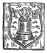 Foundry stamp of Thomas Hatch from a bell at Langley, Kent, England, dated 1599.